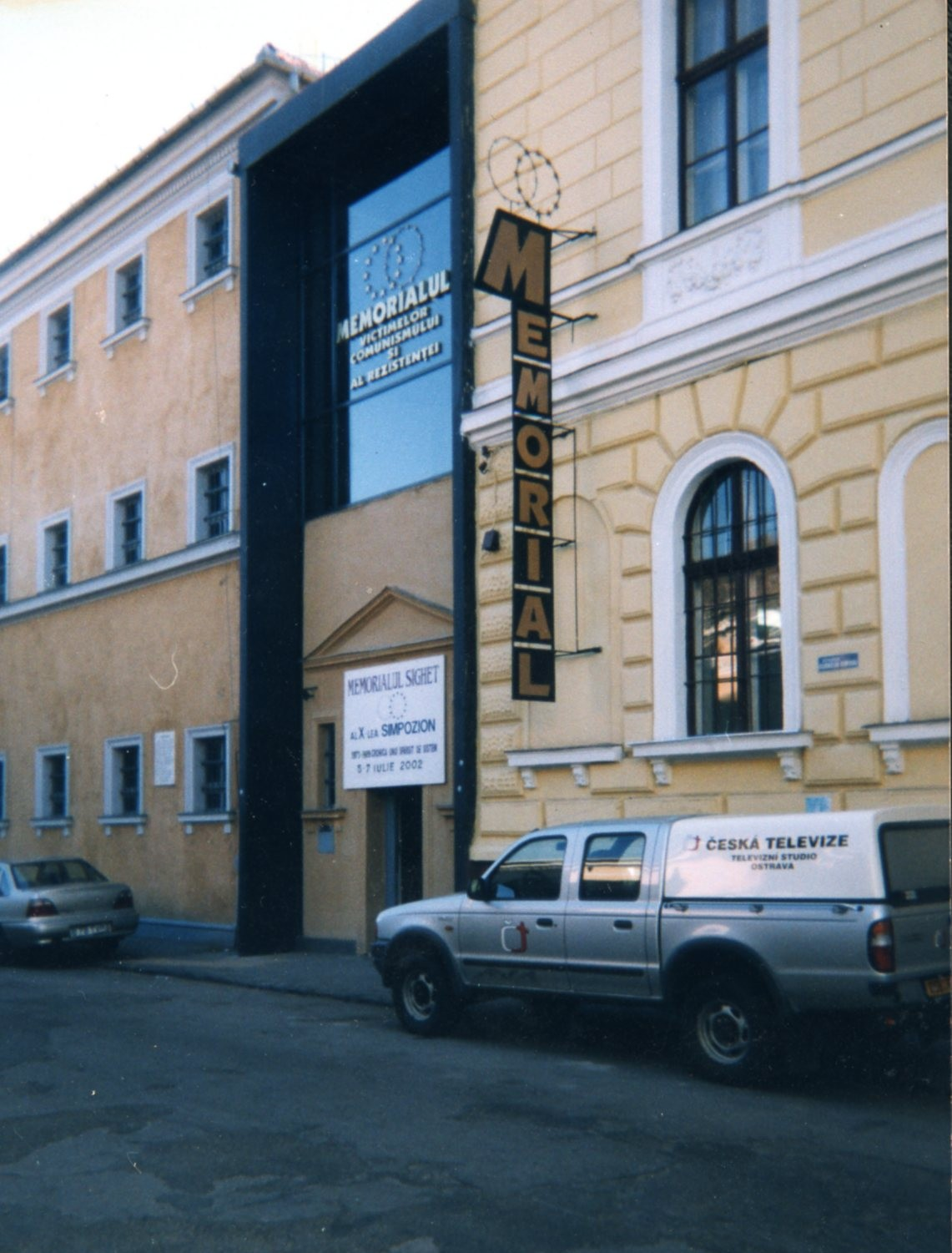 The Memorial for the Victims of Communism and of the Resistance, Sighet, in the extreme north of Romania, but geographically the centre of Europe